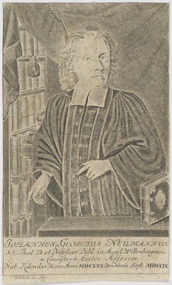 Portret Caspara Nevmanna, Johann Georg Thomschansky (1711)